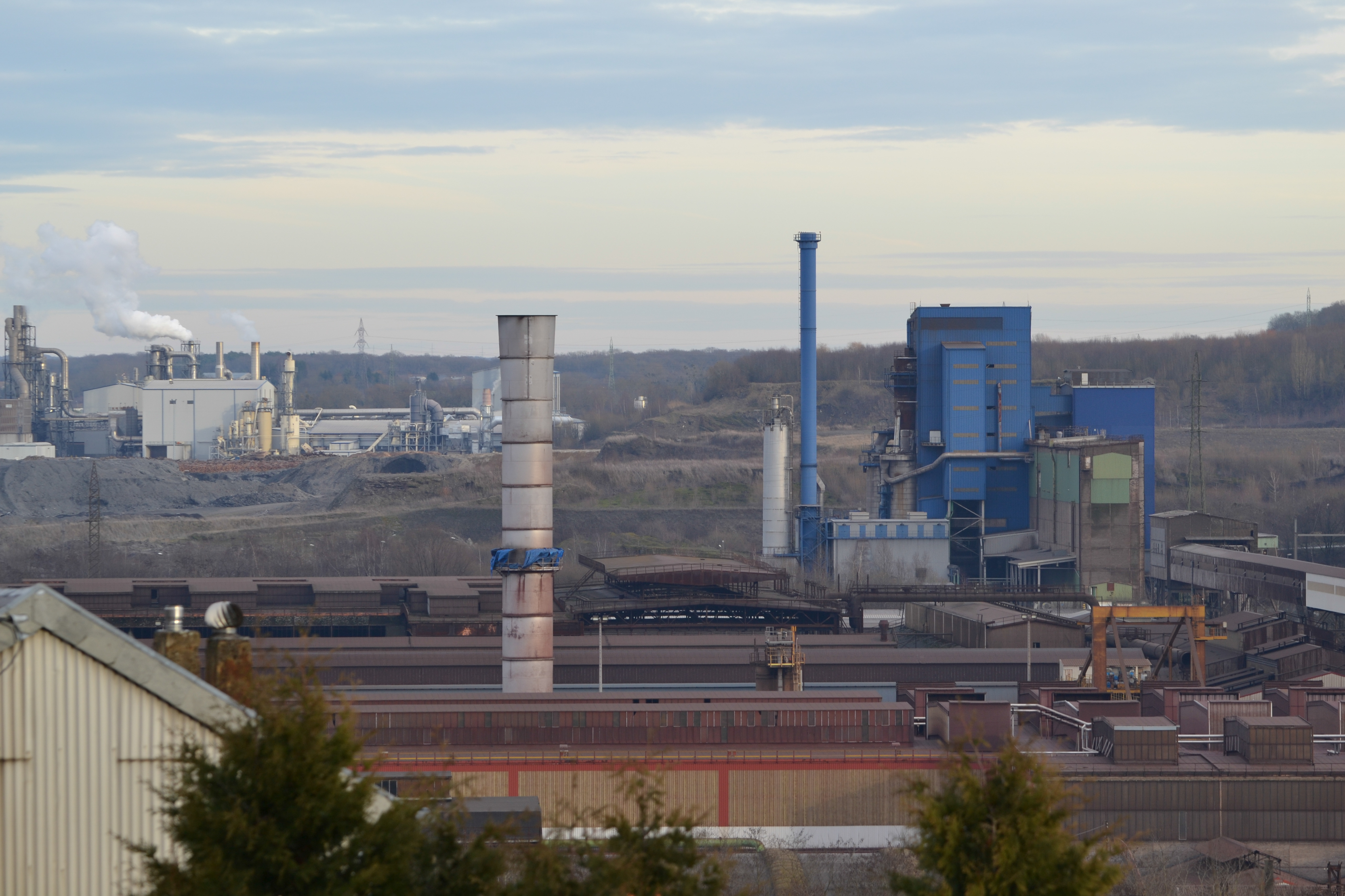 Ironwork in Differdange, Luxembourg, seen from southwest.